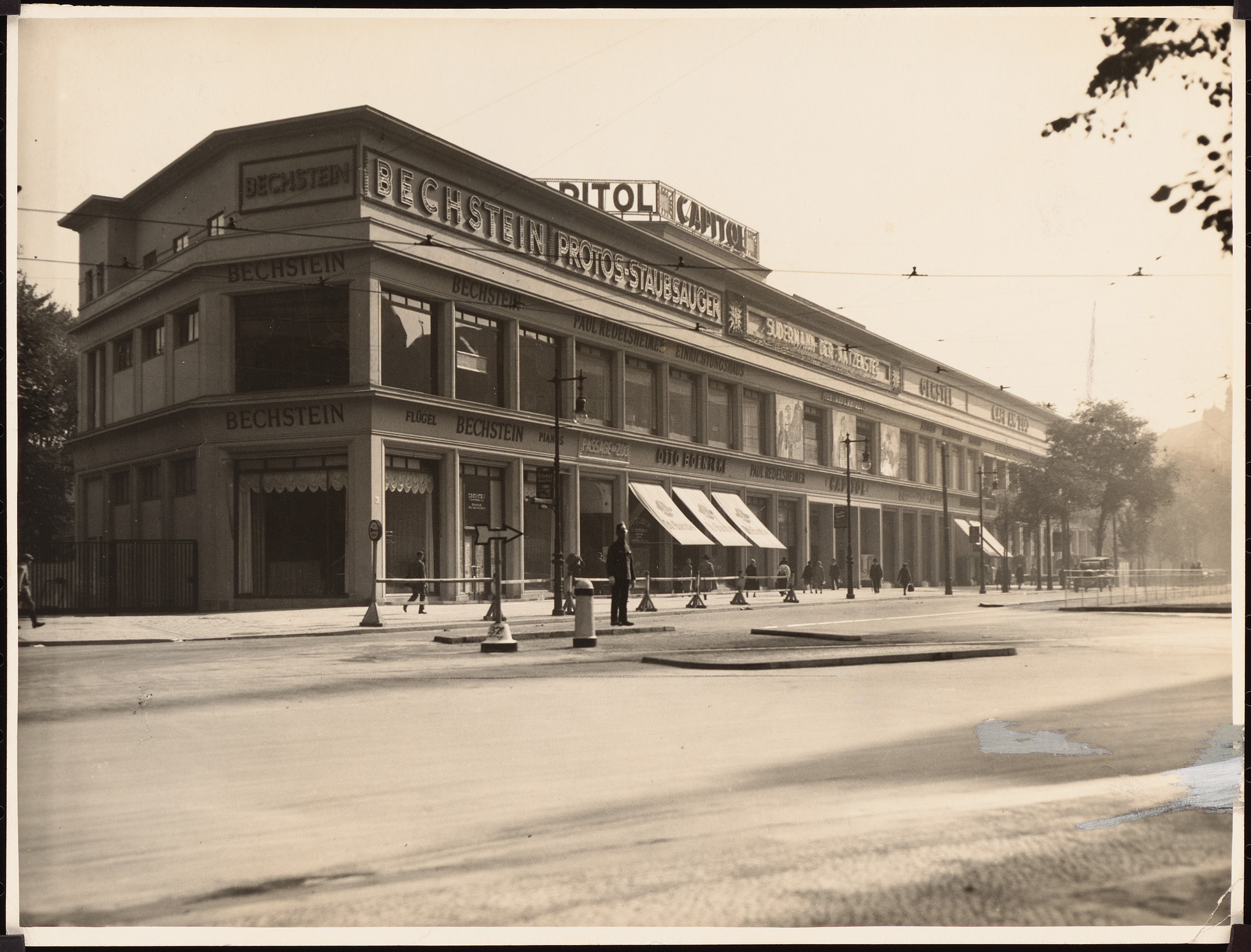 Hans Poelzig (1869-1936) Capitol-Lichtspiele am Zoo, Berlin Beteiligt: Atelier Binder (als ) Inhalt: Außenansicht Projektzeit: 1924-1926 Gattung: Foto Material/Technik: Foto auf Papier Maße: 17,4 x 22,9 cm Ort: Berlin Straße: Breitscheidplatz (historisch: Auguste-Viktoria-Platz) Inventarnummer: F 1666 URL